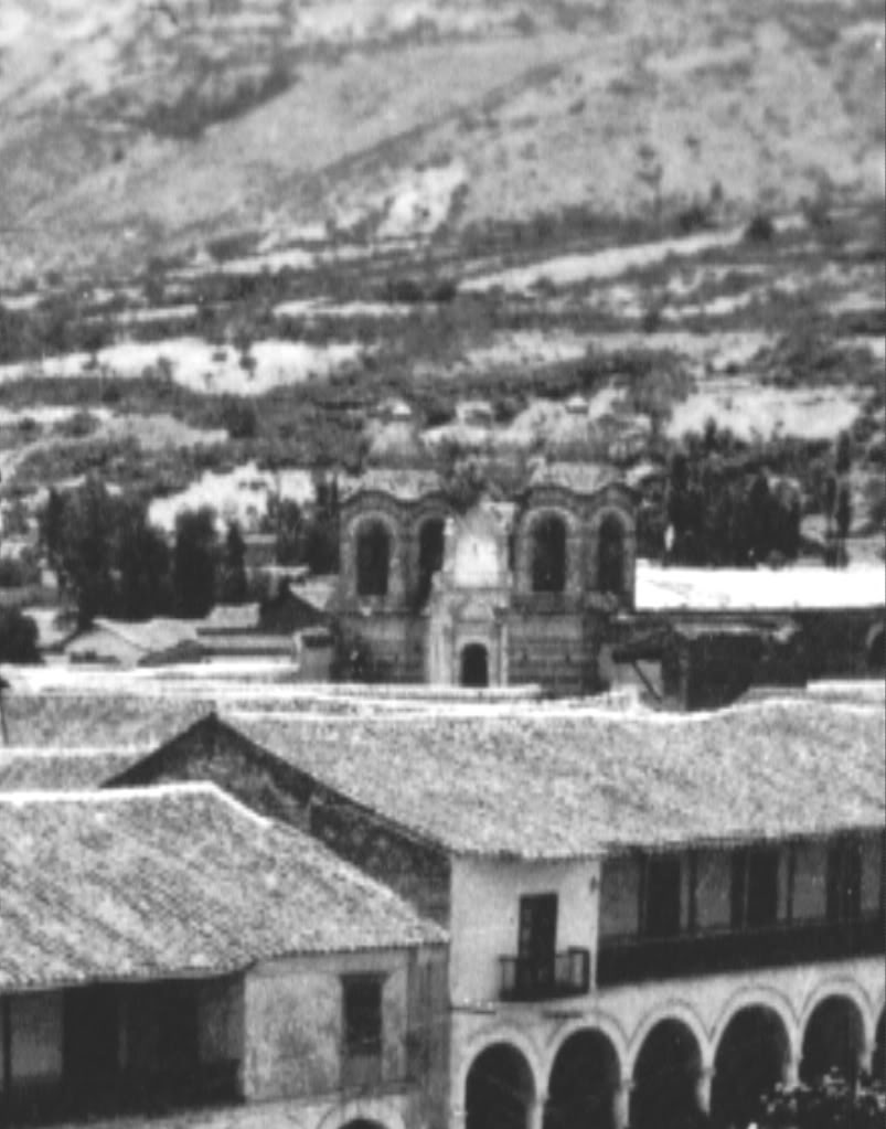 LaCompañia a 1950